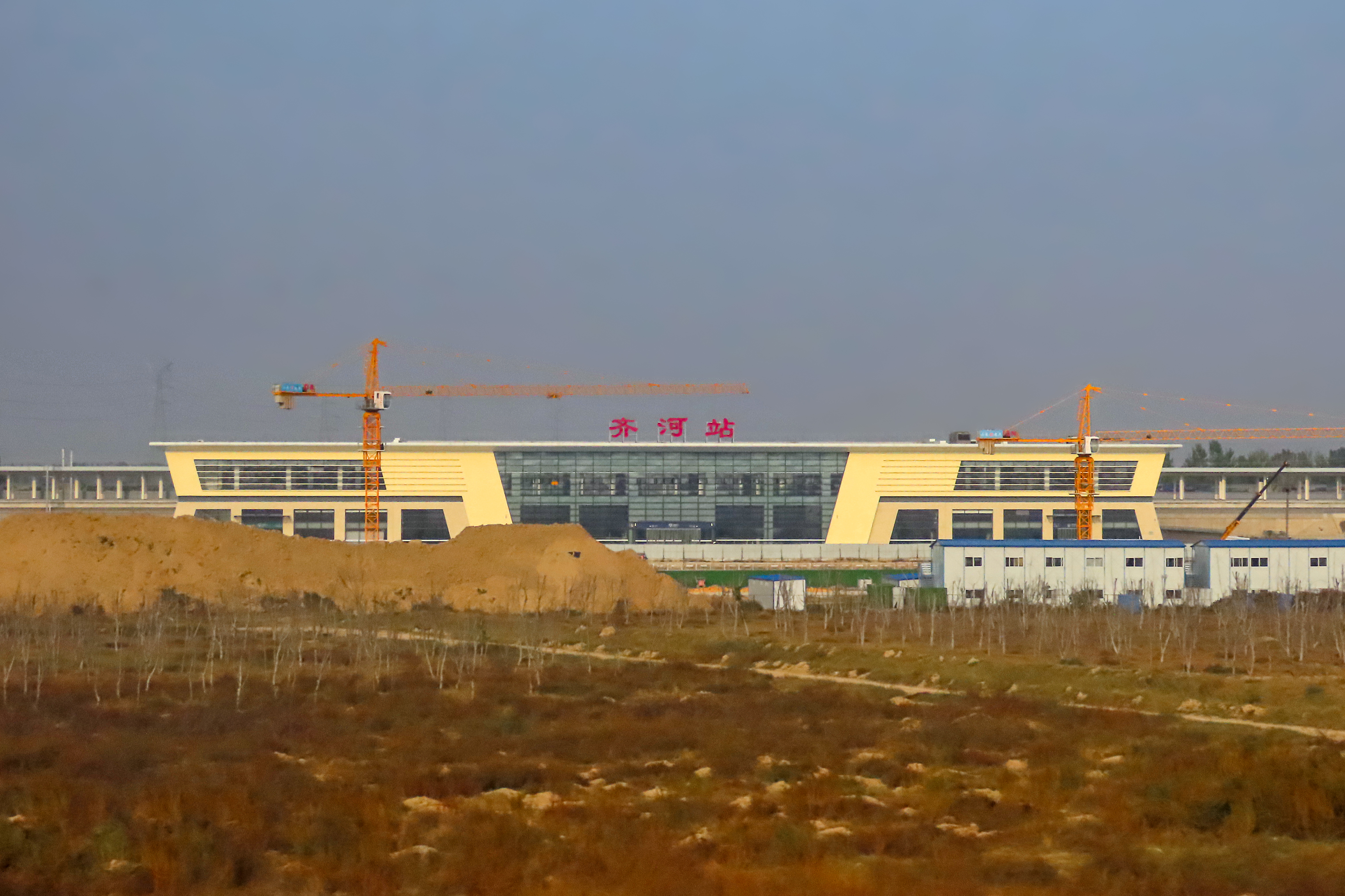 Finally this station was put in use earlier this year.